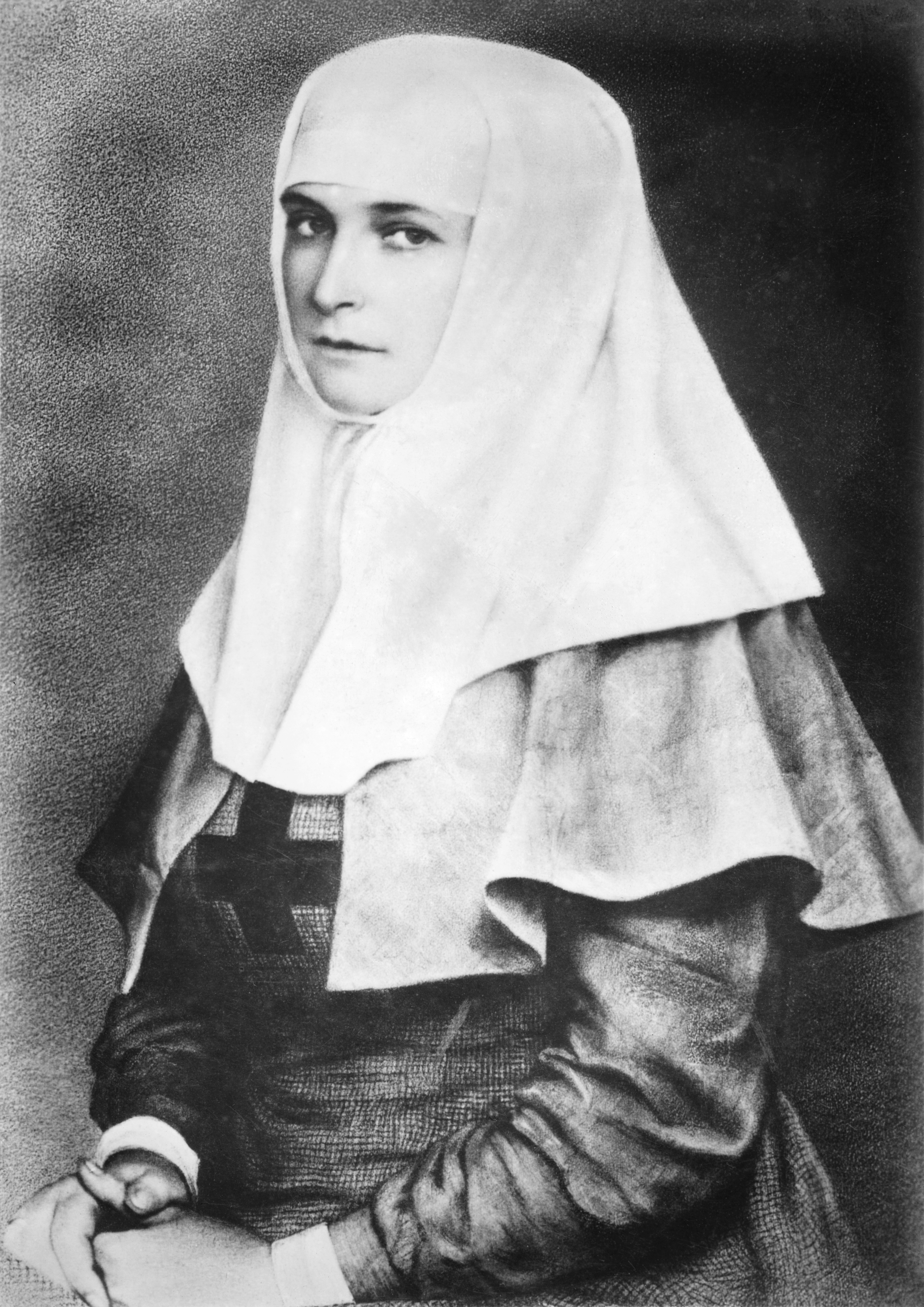 Alexandra Fyodorovna (Alix of Hesse) in her Red Cross nursing uniform during the war